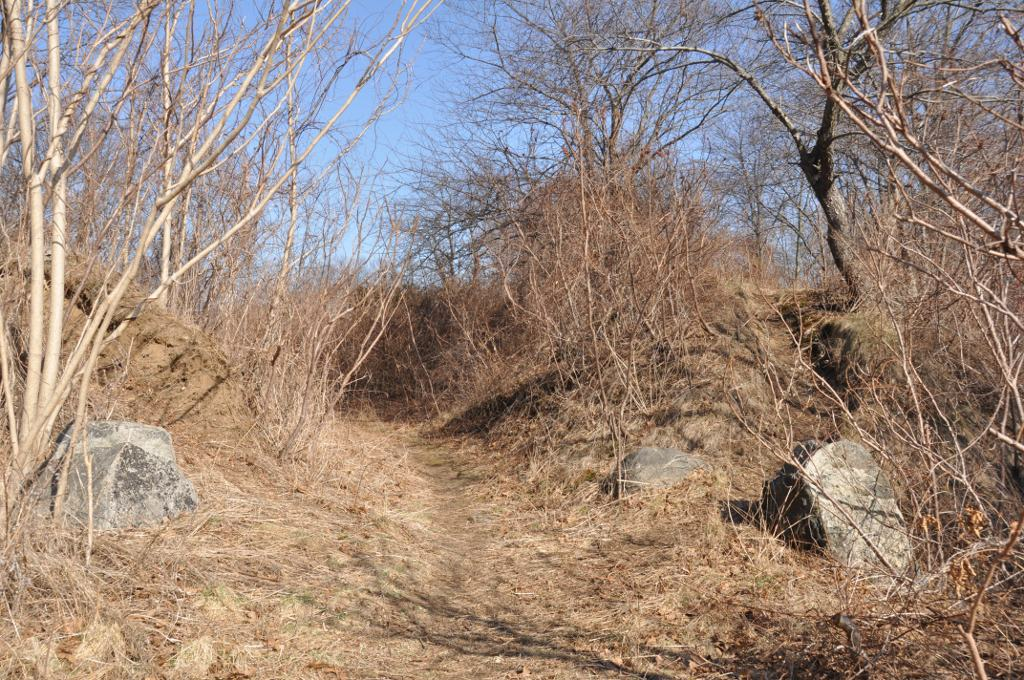 Overgrown earthworks like these are virtually all that remain of Fort Lee in Salem, Massachusetts.